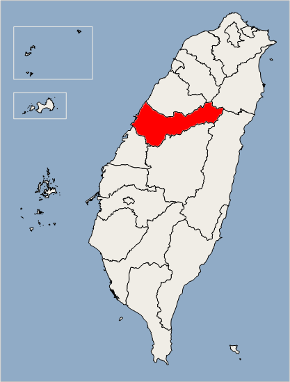 Taichung City 2010 Location Map